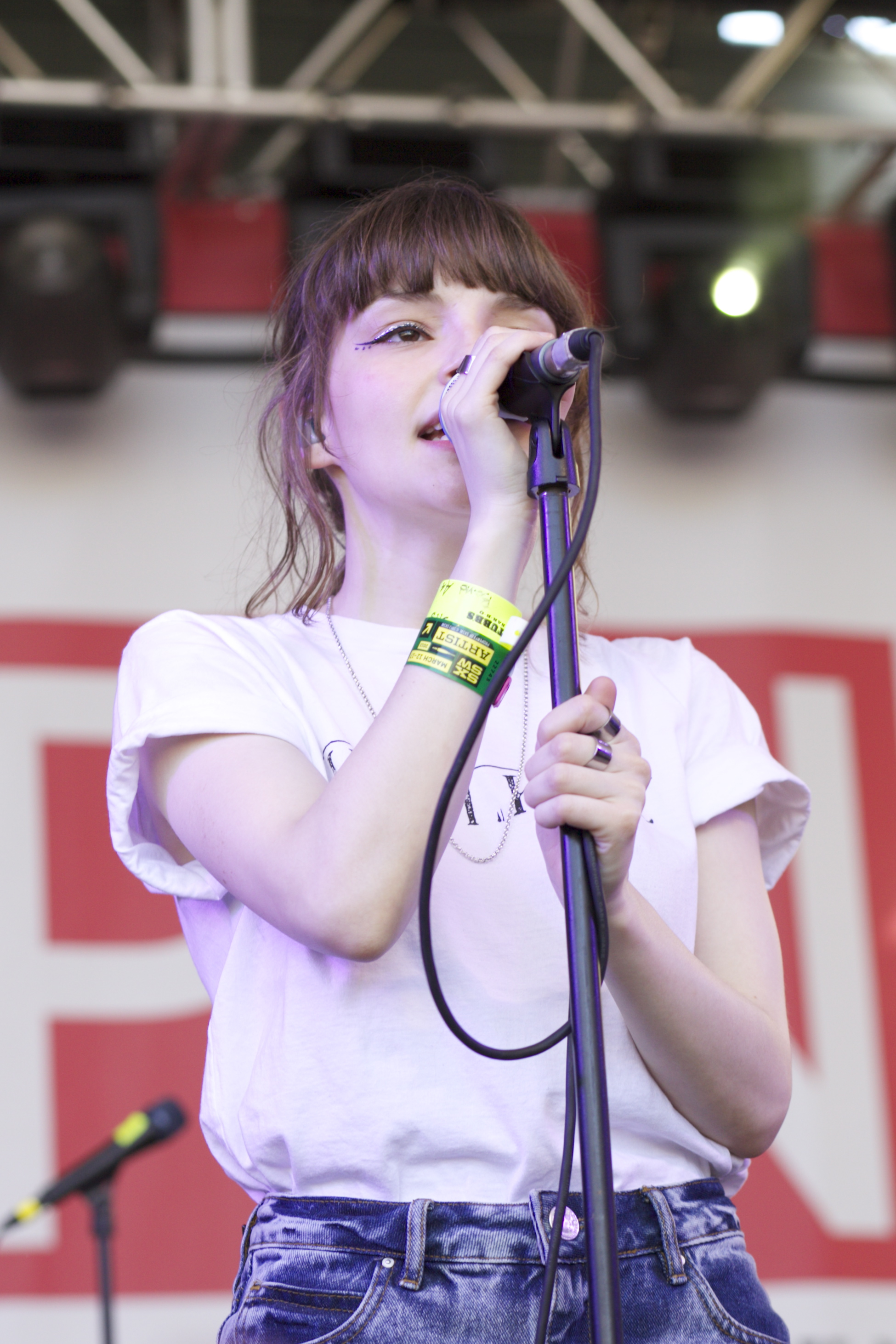 Chvrches at SPIN Party, SXSW